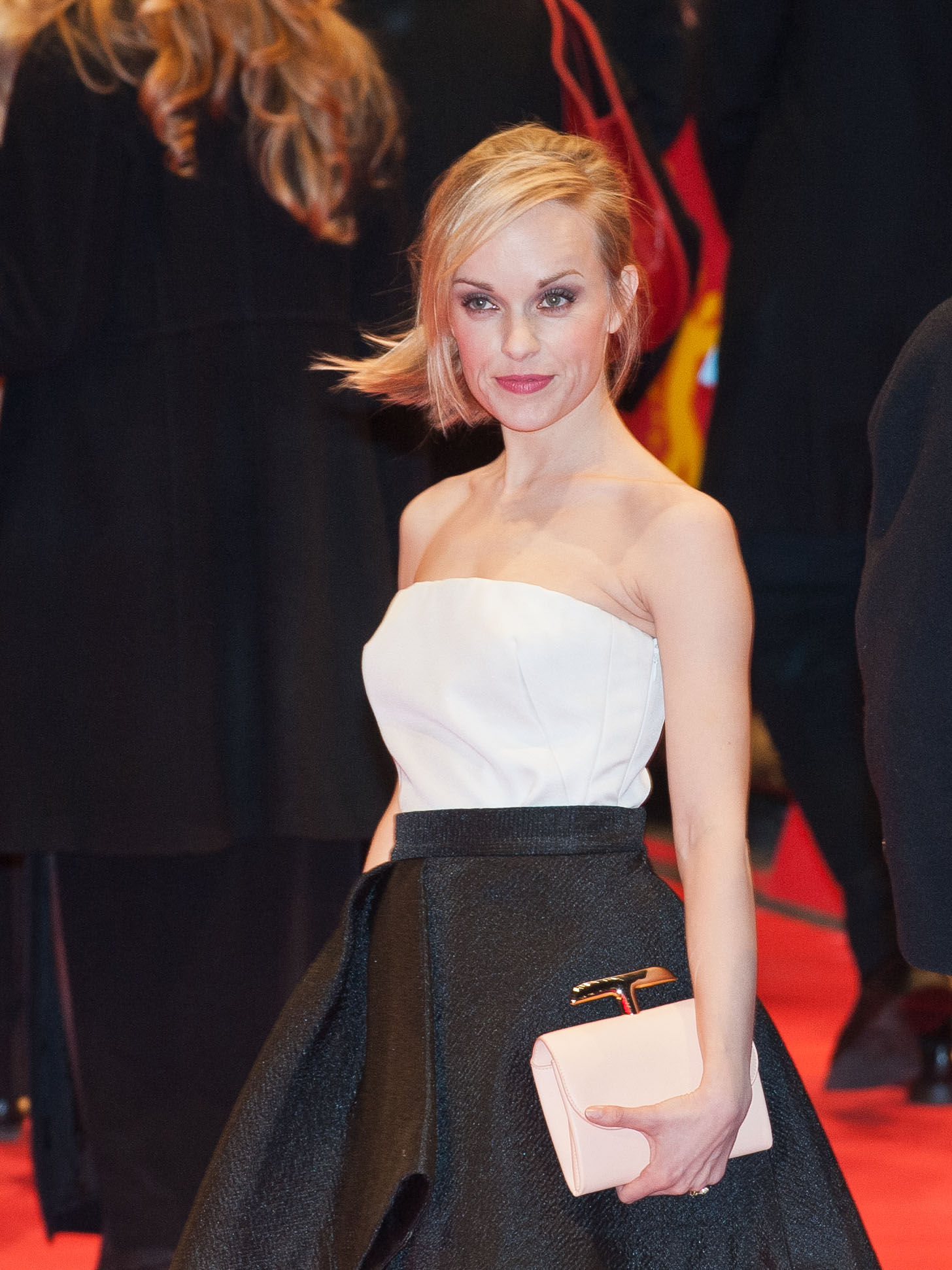 German actress Friederike Kempter, Opening of the 64th Berlin International Film Festival at the Berlinale Palast